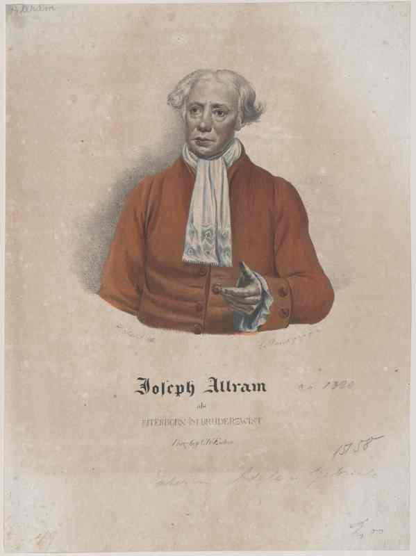 Josef Allram (1778–1835), german actor